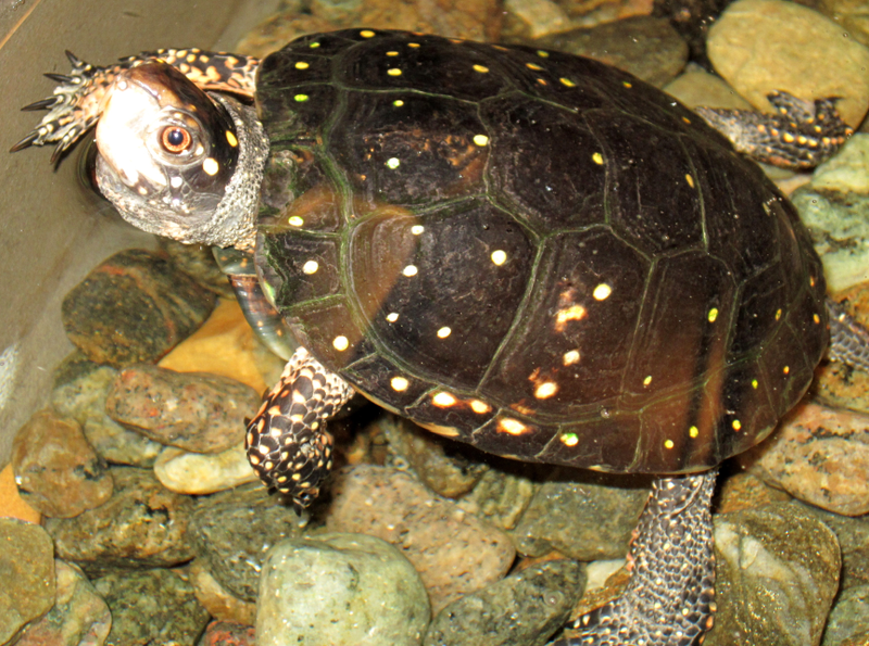 Spotted Northern Turtle @ Wild Center Tupper Lake, NY